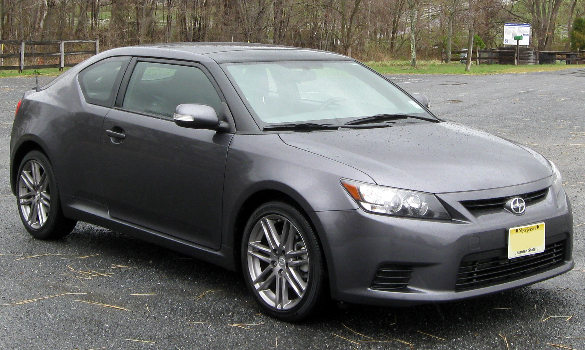 2011 Scion tC photographed in Highland, Maryland, USA.